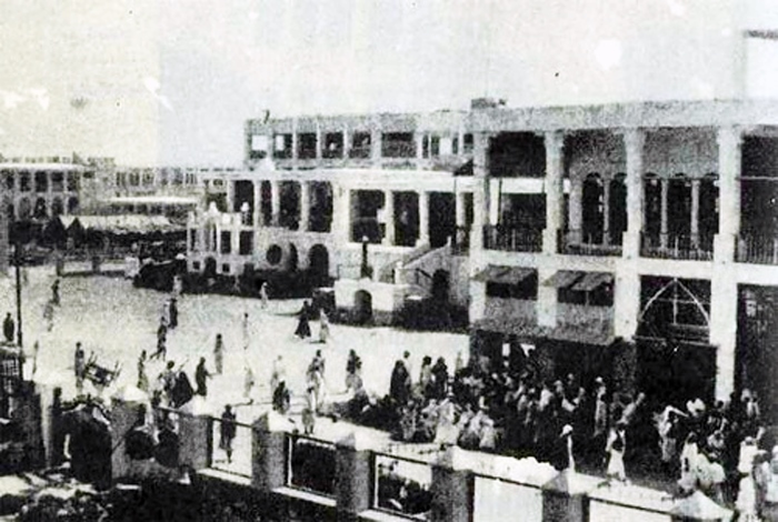 The Manama customs office and the main seaport of the town.